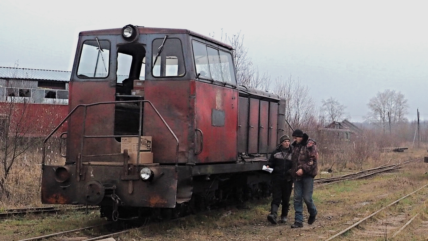 A fantrip at Semigorodnjaja narrow gauge forestly railway, provided in 2015 by rusbestrailways.ru/ We rided at single loco to 17 km There was a forestly railway, 80 km north from Vologda, from Semigorodnjaja RZD station to 100 km eastbound. Since mid 2000-s it runs for 25 km. In 2015 wood carry changed to trucks, future of Semigorodnaya railway is unclear.